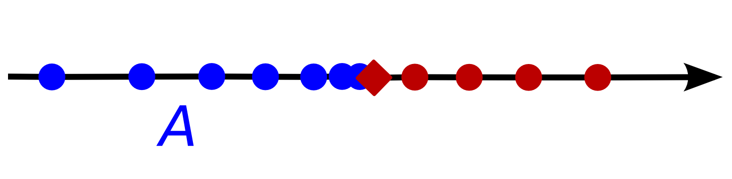 A set A of real numbers (shown as blue balls), a set of upper bounds of A (red balls), and the smallest such upper bound, that is, the supremum of A (shown as a red diamond).